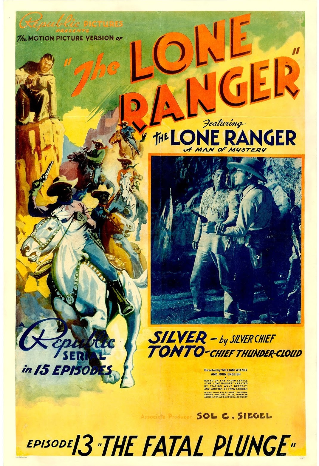 Original movie poster for the Republic Pictures serial The Lone Ranger (1938)